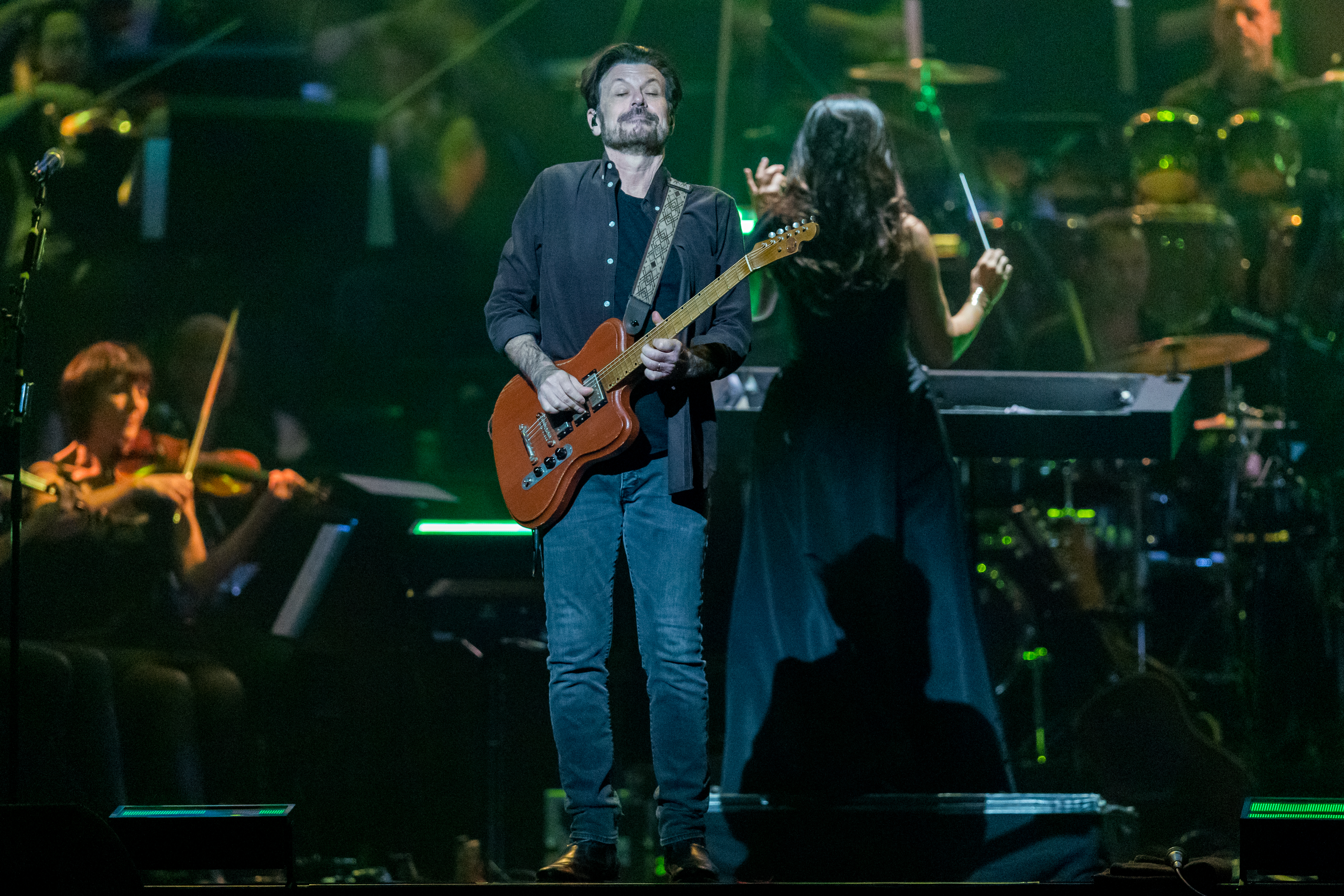 Eric Bazilian during Night of the Proms at SAP Arena, Mannheim, Baden-Württemberg, Germany on 2019-11-29, Photo: Sven Mandel